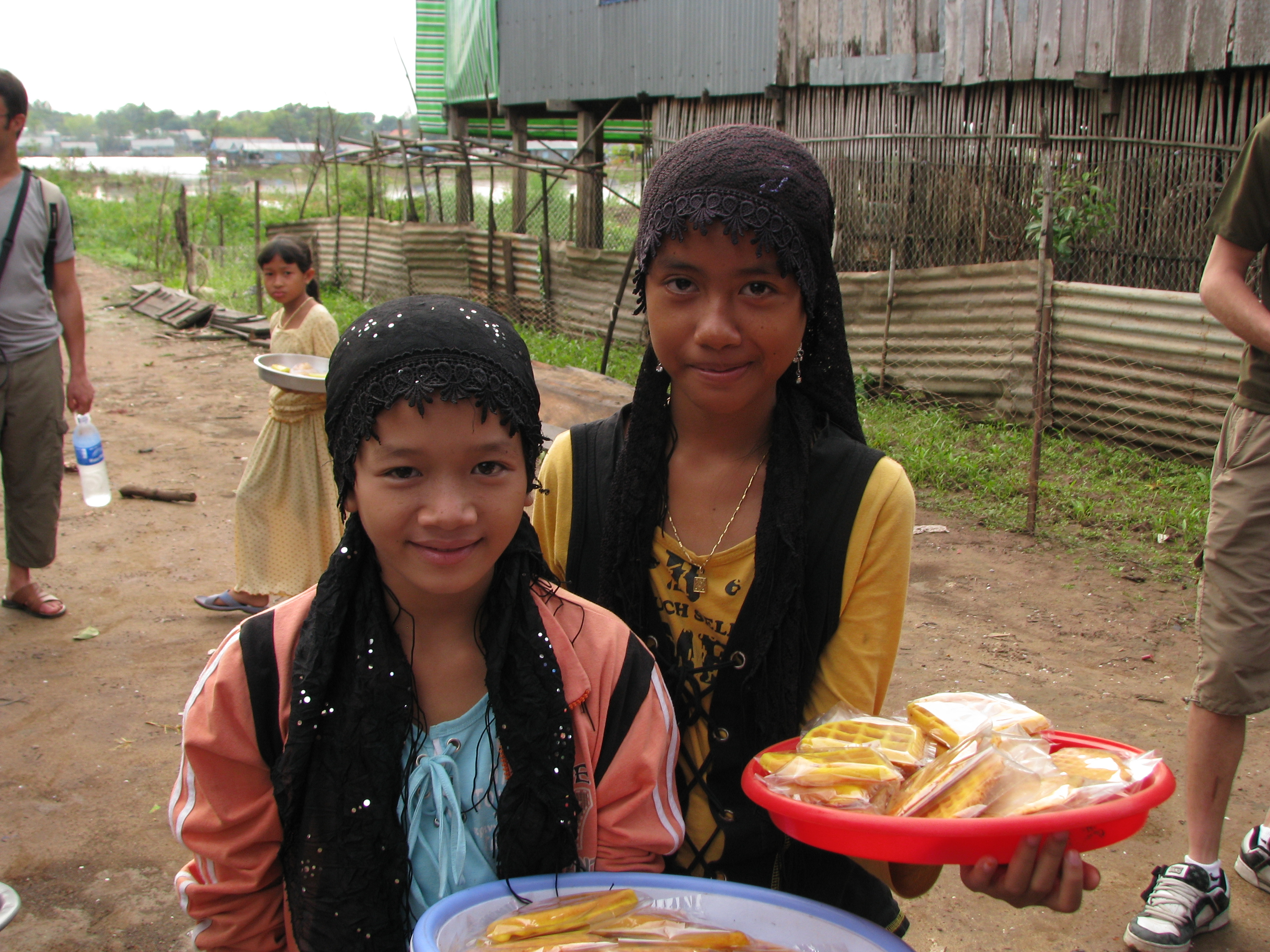 girls selling waffles. They speak Cham, Vietnamese, English, French, Chinese and Spanish!